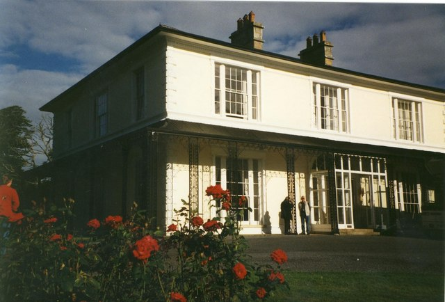 Woodstown House Jackie Kennedy Onassis stayed here the year after John F Kennedy's assassination